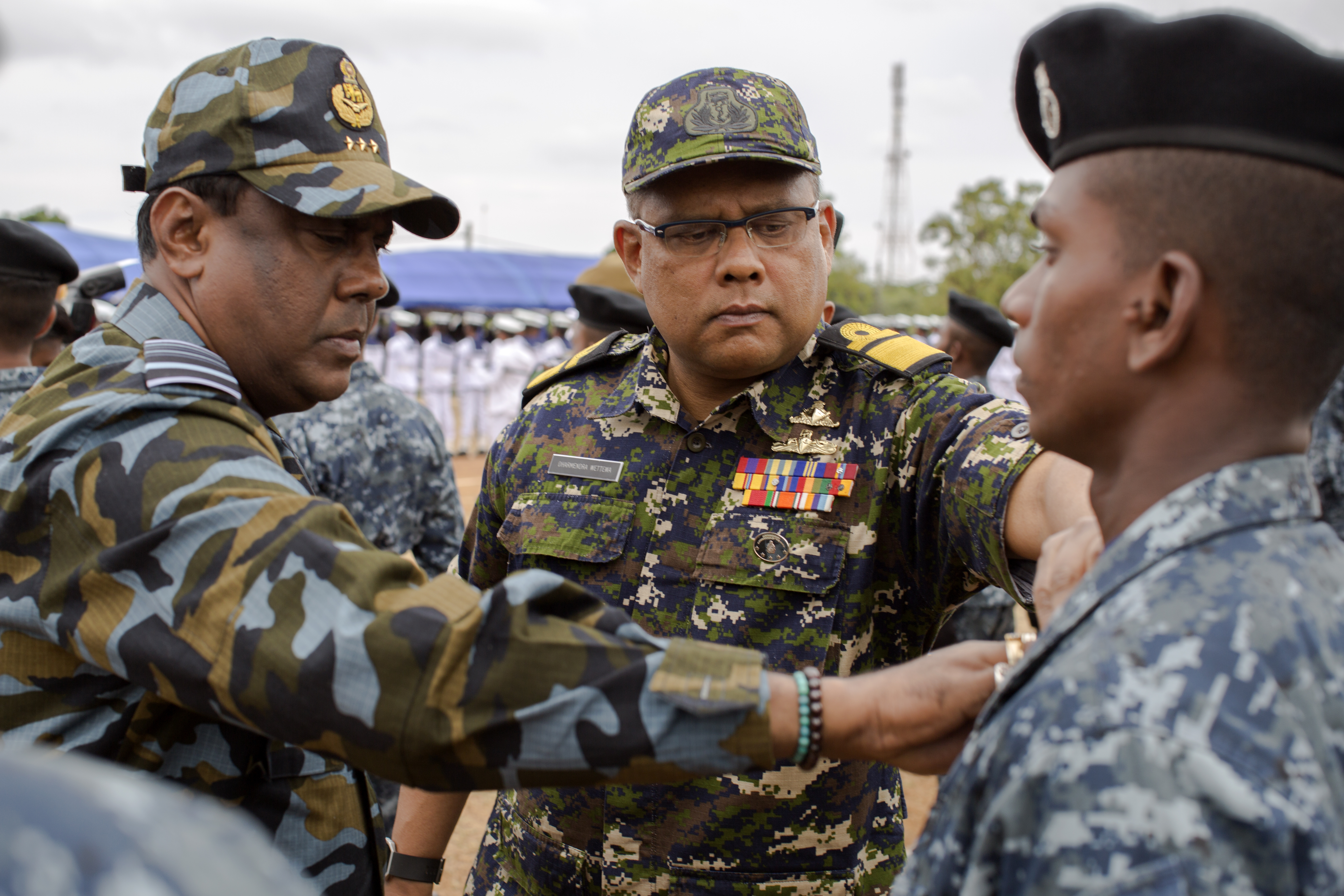 Commander of Sri Lankan Air Force Chief Marshall Kapila Jayampathy and Rear Adm. Dharmendra Wettewa of the Sri Lanka Navy pin on the Sri Lankan Marine Corps emblem on a Sri Lankan Marine during the SLMC Boot Camp graduation at Sri Lankan Naval Station Barana in Mullikulum, Sri Lanka, Feb. 26, 2017. The ceremony marked the creation of the first Sri Lankan Marines. (U.S. Marine Corps photo by Lance Cpl. Robert Sweet)